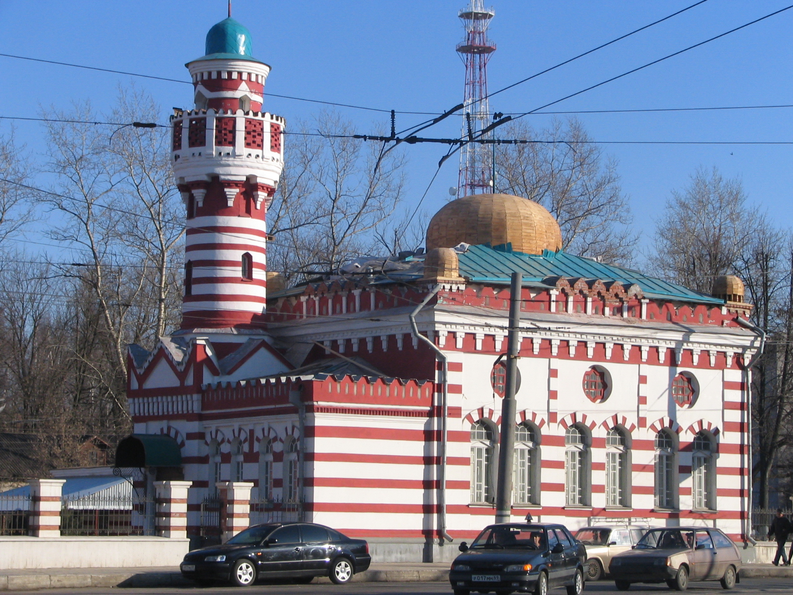 Mosque in Tver, Russia, built in 1906 by B. G. Polyak.